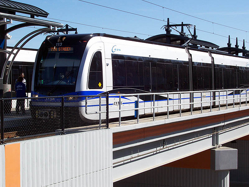 I-485/South Blvd. Station on the LYNX Blue Line light rail system in Charlotte, NC.